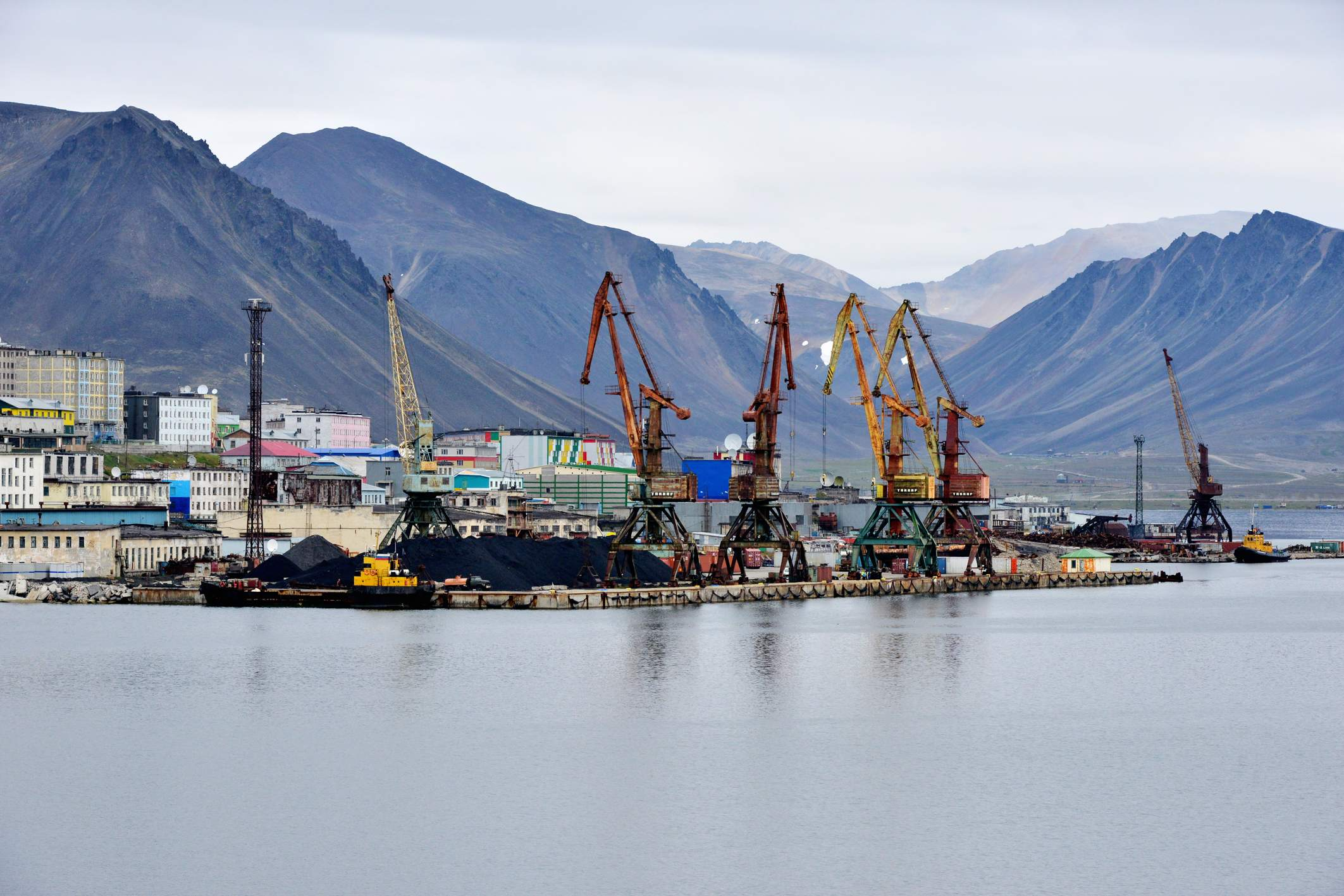 Provideniya (Chukotka, Russia; 64°25’30’’N, 173°13’30’’W), seaport